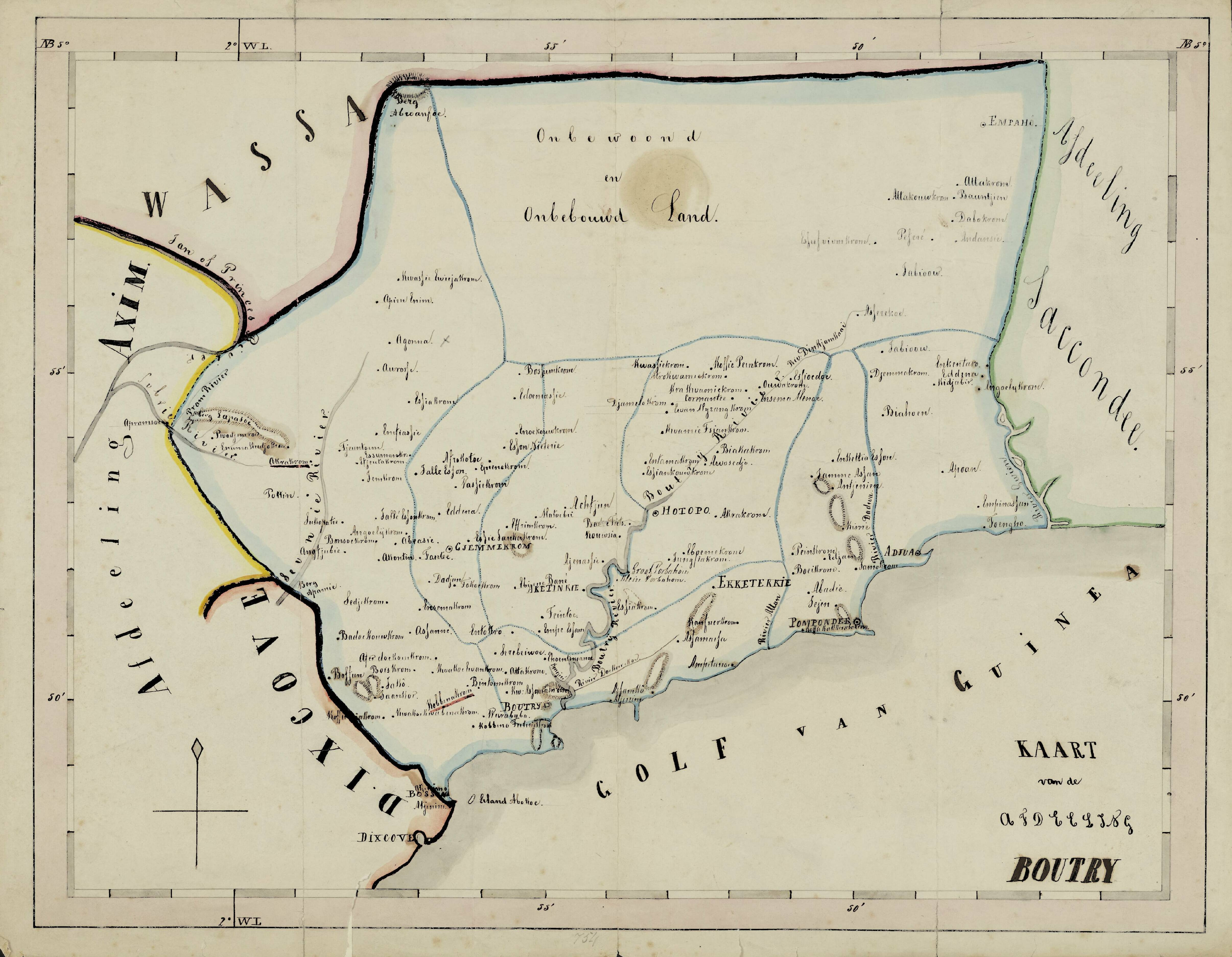 Map of the district of Boutry on the Dutch Gold Coast